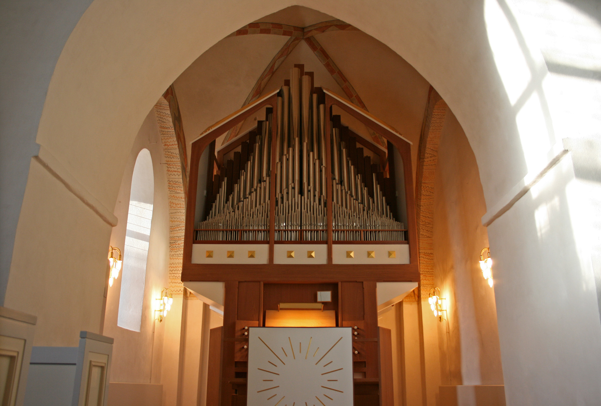 The front of the pipe organ in Jørlunde church, Denmark. Architects: Inger & Johannes Exner. Organ builders: Frobenius (2009)